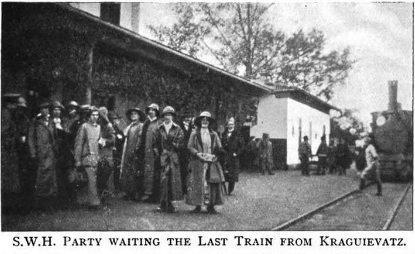 Scottish Women's Hospital - The Great Retreat (November 1915) - S.W.H. party waiting for the last train from Kragujevac